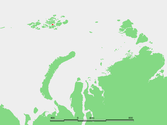 Nordensjelda Islands